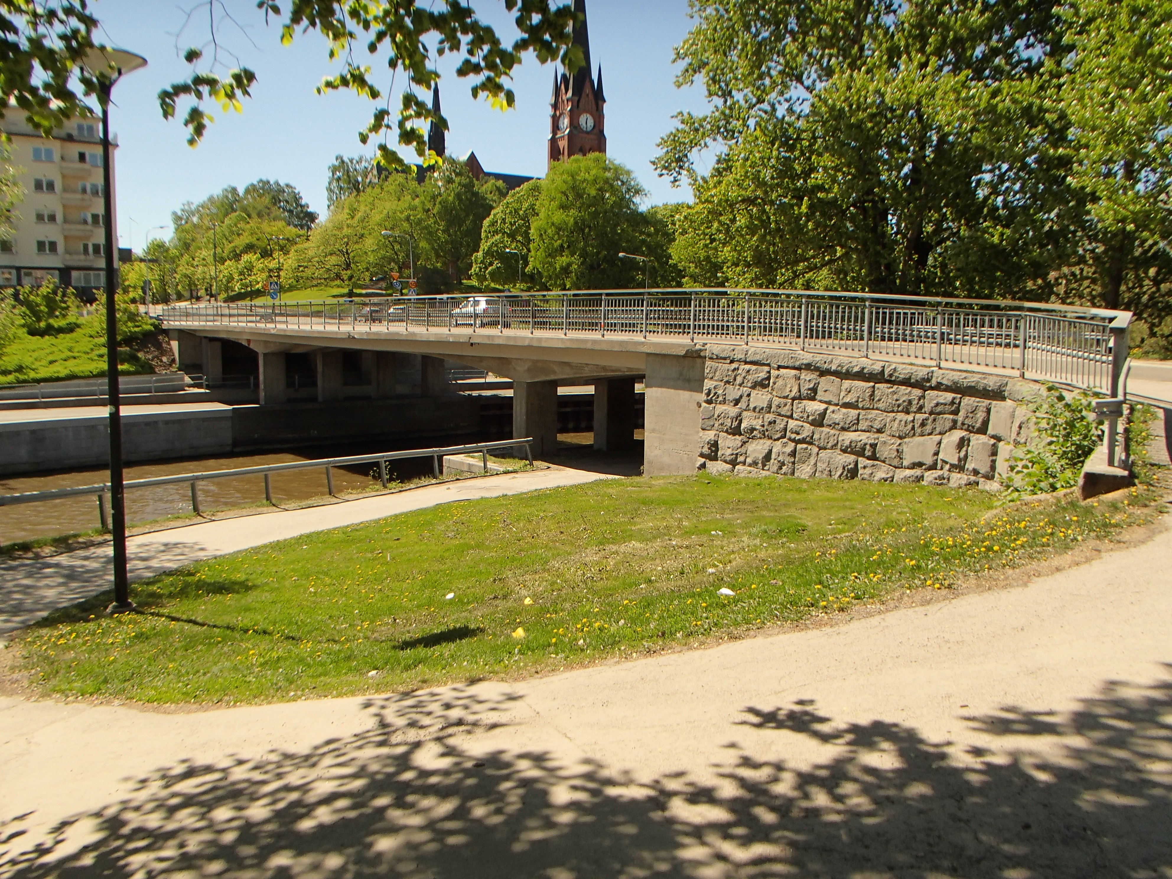 Storbron, a bridge across Selångersån river in central Sundsvall, Sweden, viewed from northeast towards the Gustav Adolf Church